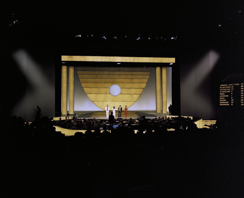 Stage of the Eurovision Song Contest 1976, designed by Roland de Groot. It consists of a parabolic figure, cut in horizontal strips and a circle. All strips and the circle can move seperately. Each country at the Eurovision Song Contest 1976 had its own background, consisting of the strips and circle